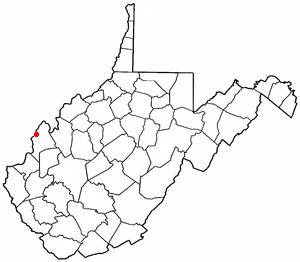 Point Pleasant, West Virginia